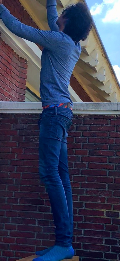 Boy with skinny jeans, wearing low.